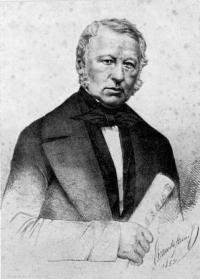 Gegraveerd portret van de componist Pieter Vanderghinste (1789-1861).